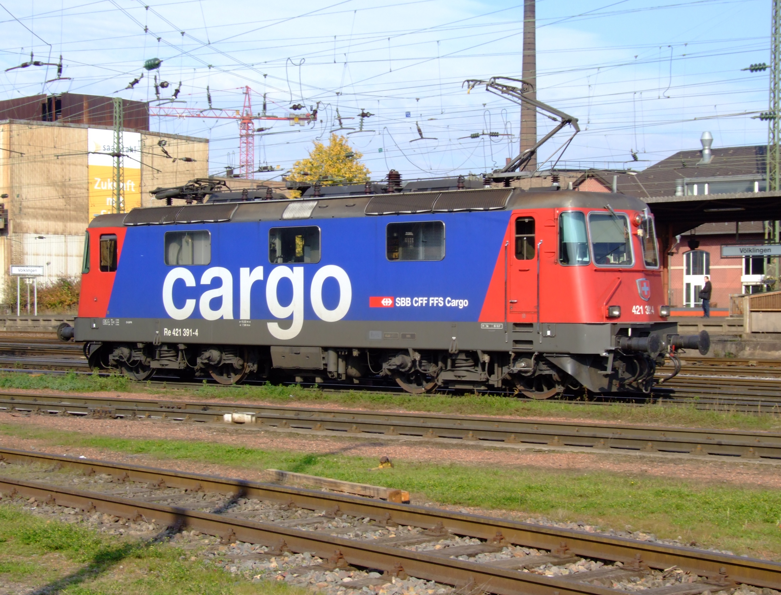 Photographed in Germany.